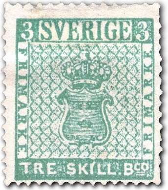 An 1855 Swedish Three Schilling Banco Green (3 skilling Banco Grön) stamp. From the collections of the Swedish Postal Museum.